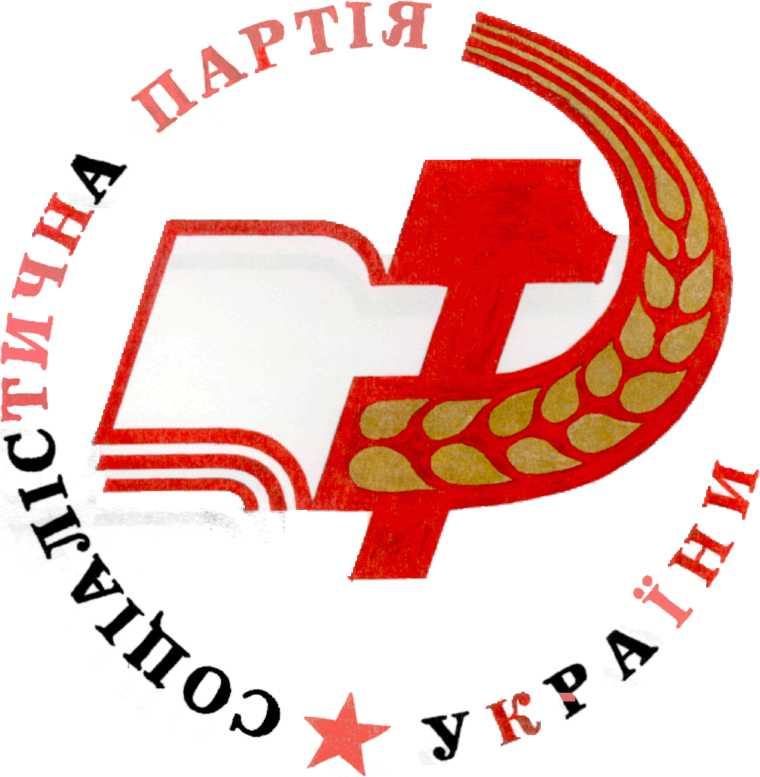 Main logo of the Socialist Party of Ukraine.